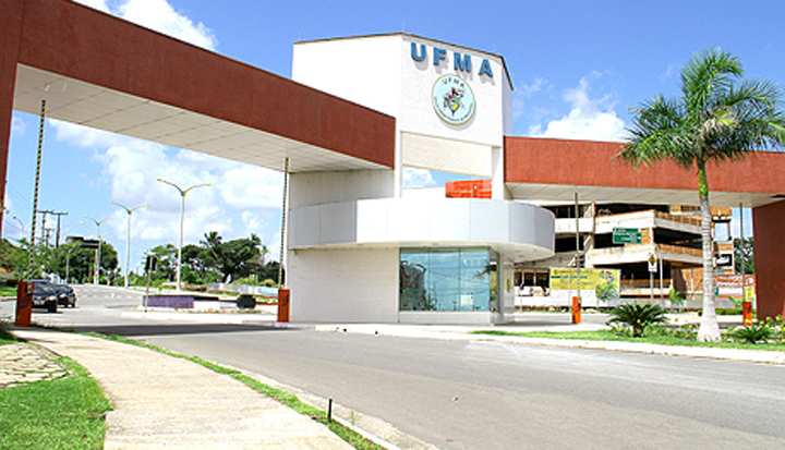 UFMA